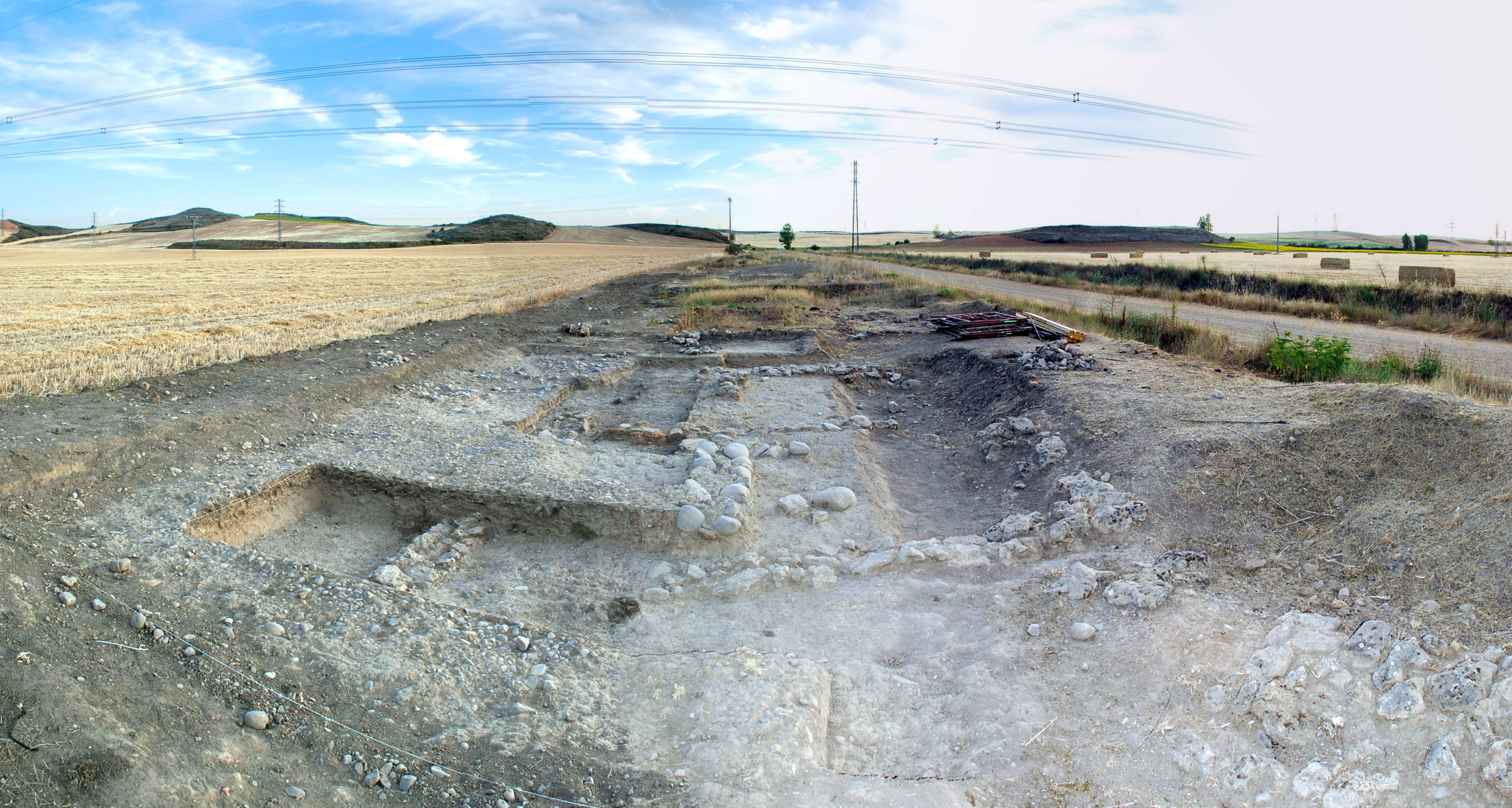 Archaeological excavations in the cannaba of Pisoraca (Herrera de Pisuerga, Castile and Leon).